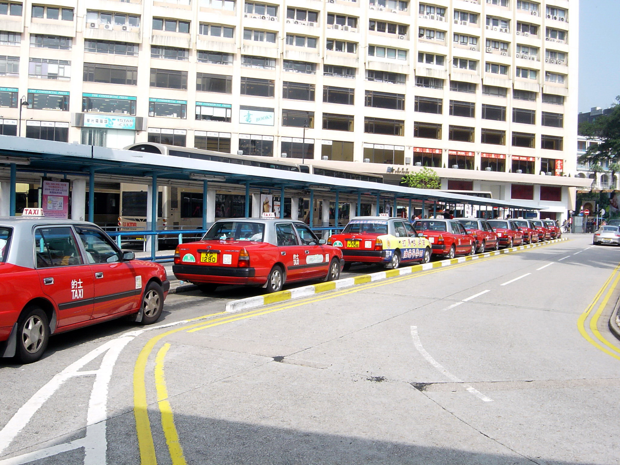 Taxi stop in Tsim Sha Tsui ferry pier, Hong Kong.